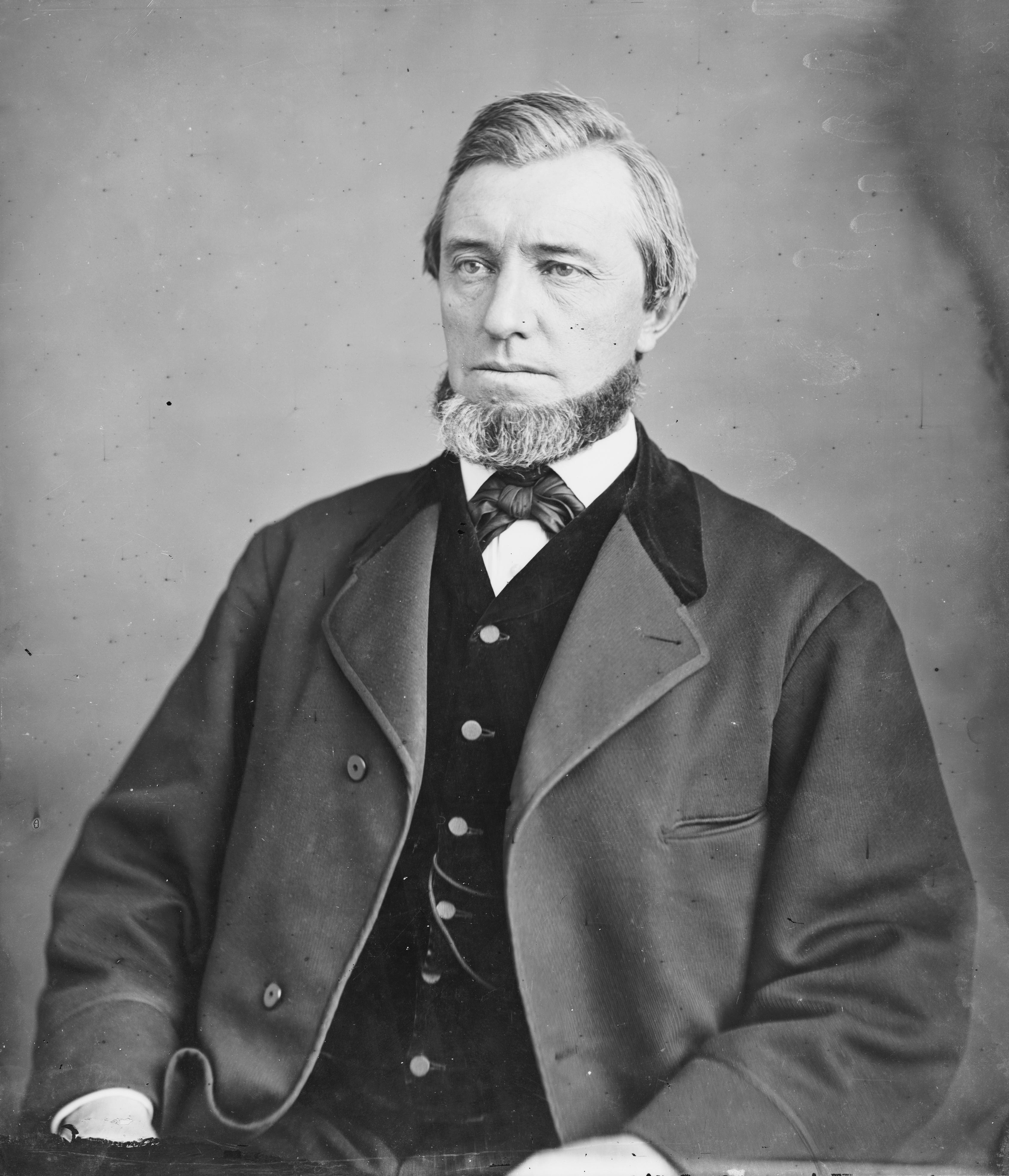 Stephen Taber. Library of Congress description: "Taber, Hon. M.C. (Stephen of N.Y.)"